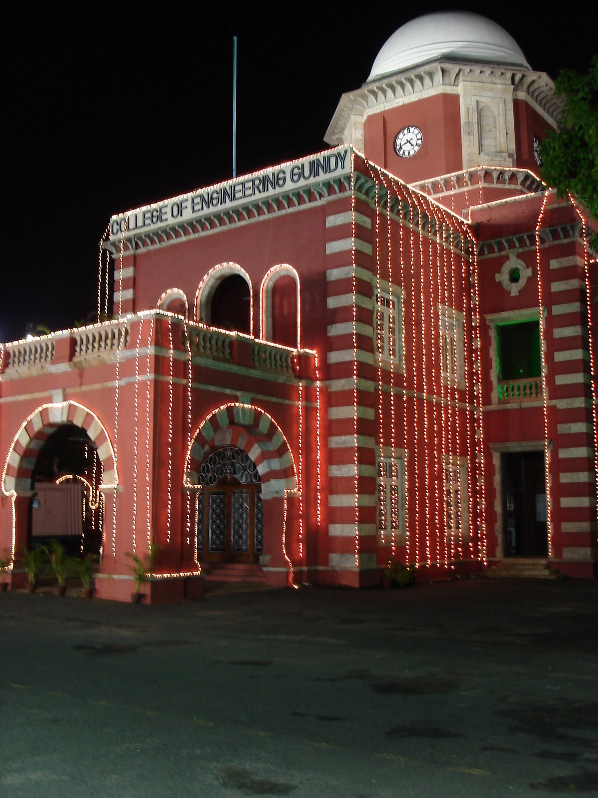 A night view of Anna University.